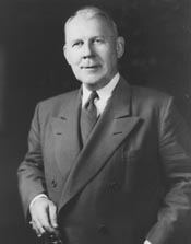 former congressman Graham Arthur Barden of North Carolina. Image courtesy of the Library of Congress.